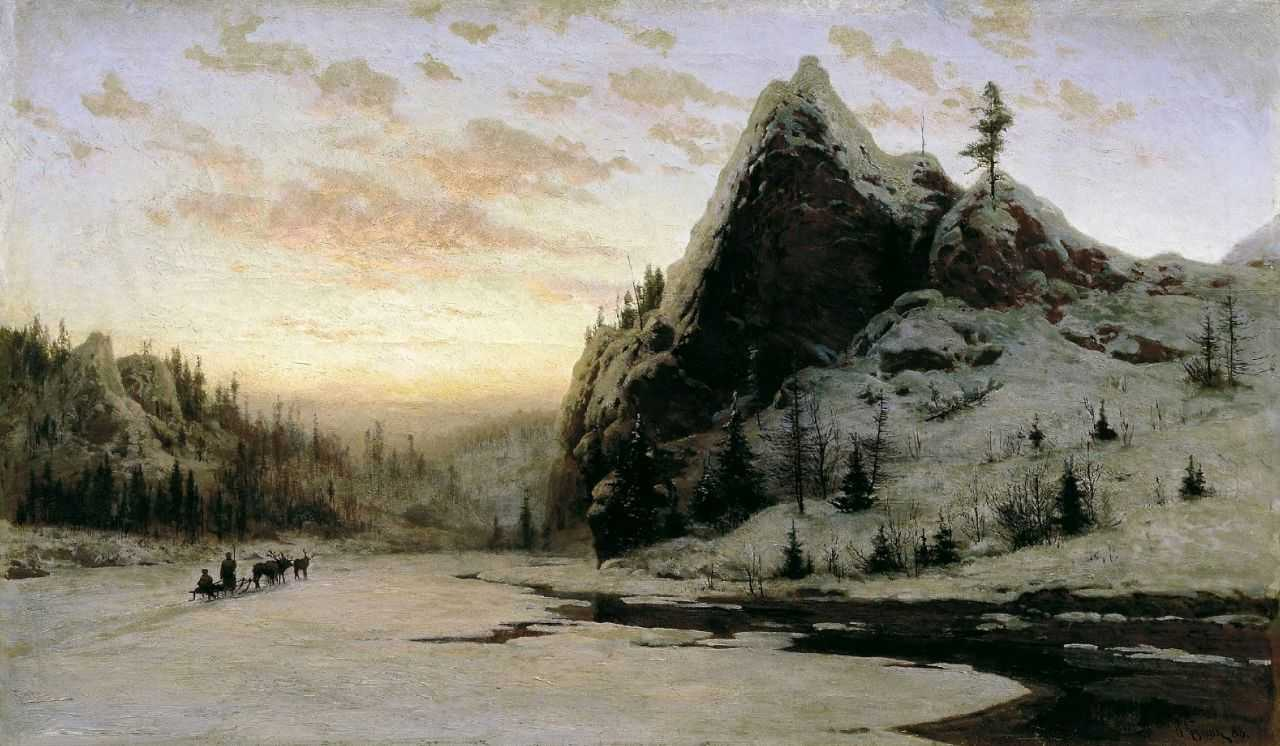 In Ural. oil on canvas 71x120cm